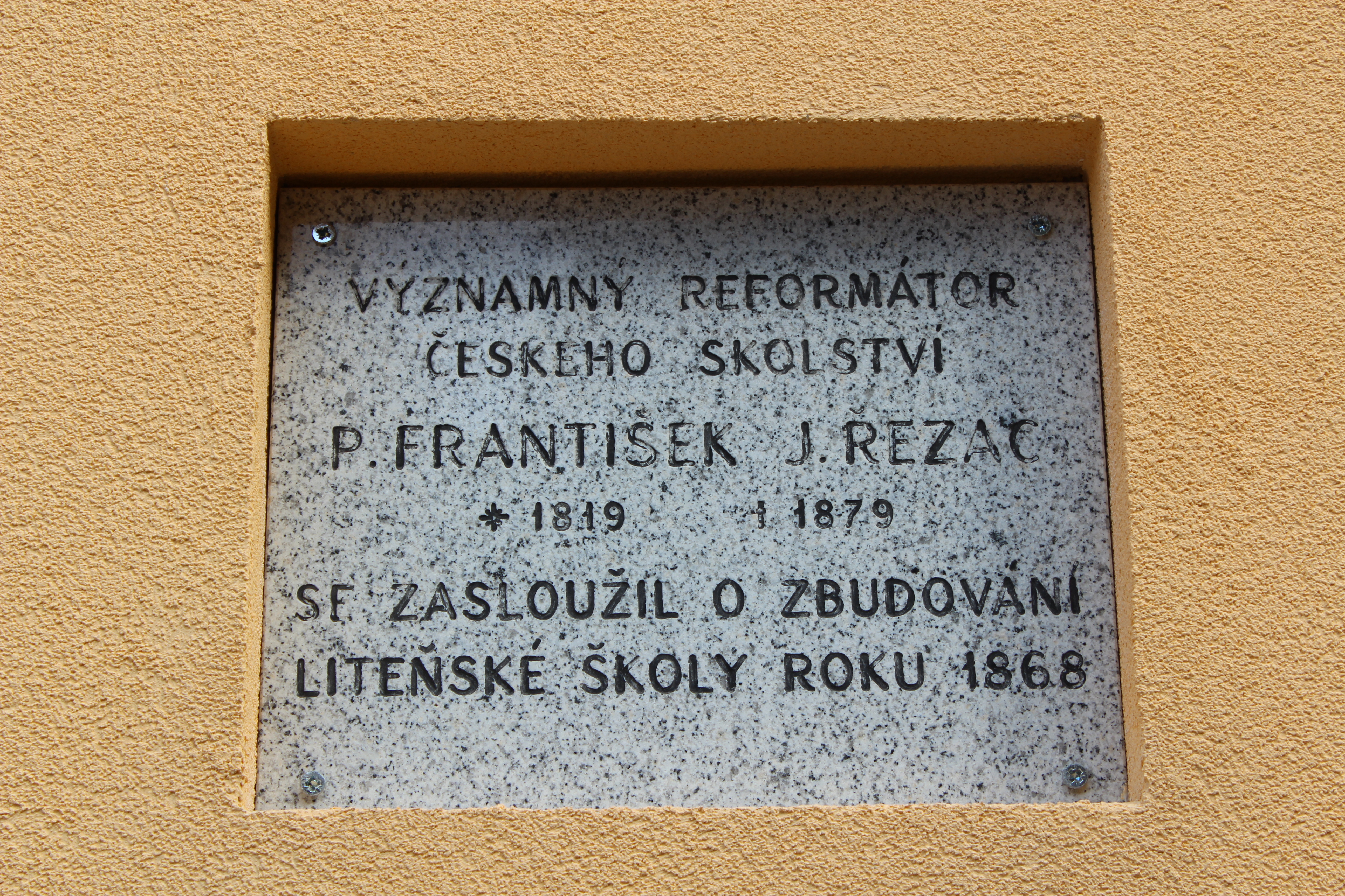 Memorial plaque of František Josef Řezáč